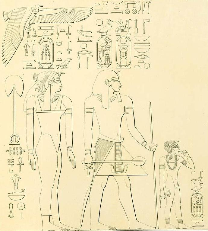 Pharaoh Thutmose I of the 18th dynasty of Ancient Egypt, with his chief wife Queen Ahmose and daughter Neferubity. (The father, mother and sister of Hatshepsut.)